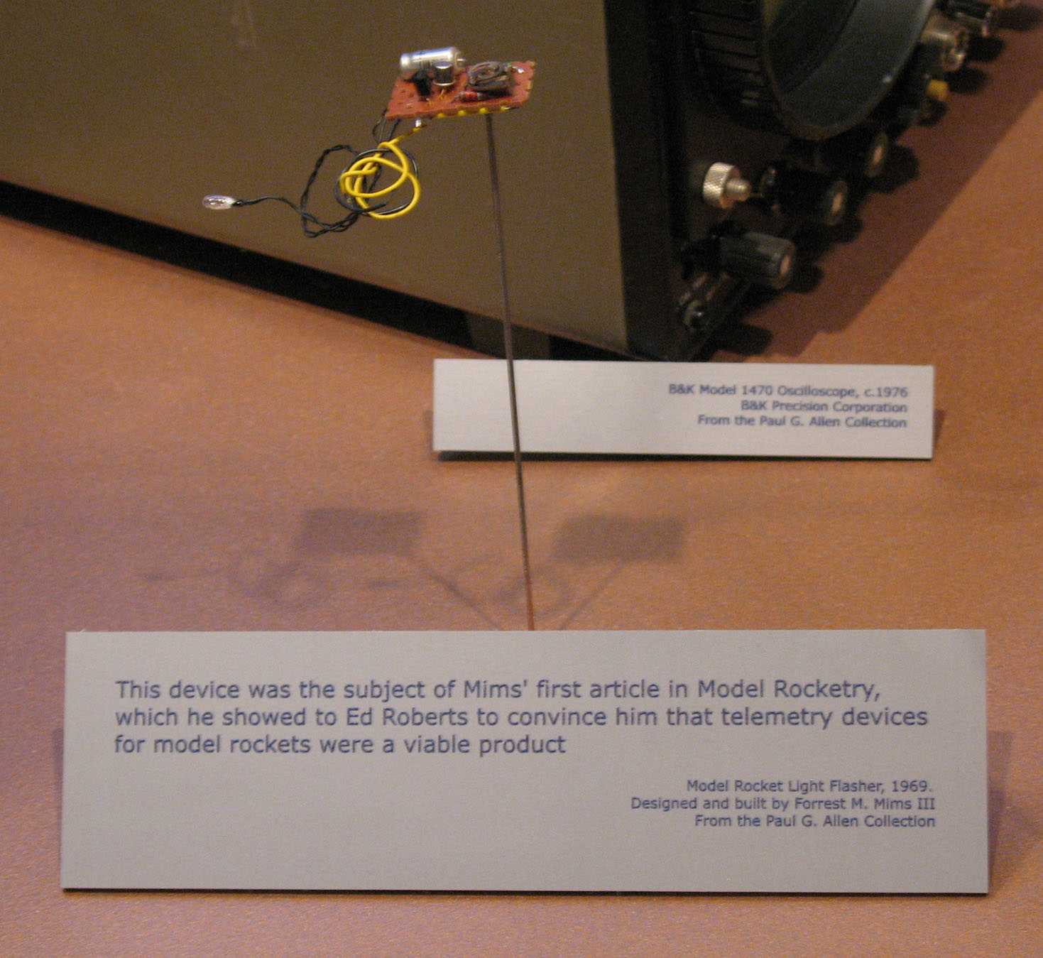 A tracking light for night launched model rockets. The flashing light would allow the rocket's path to be followed and aid in the recovery of the rocket. The construction article by Forrest Mims appeared in the September 1969 issue of Model Rocketry and the flasher was the first product of Micro Instrumentation and Telemetry Systems, MITS. In 1975 MITS introduced the Altair 8800, the first successful personal computer. Mims, Forrest M. (September 1969). "Transistorized Tracking Light for Night Launched Model Rockets". Model Rocketry 1 (11): pp. 9-11. Cambridge, MA: Model Rocketry, Inc. The Light Flasher is on display at the "STARTUP: Albuquerque and the Personal Computer Revolution" wing of the New Mexico Museum of Natural History and Science. The museum allows photography by visitors with no restrictions. (I checked with the Public Relations Manager before my visit.) Photo by Michael Holley, April 2007. Taken with a Canon PowerShot A630 (1/10 second and F/3.5) using existing light.